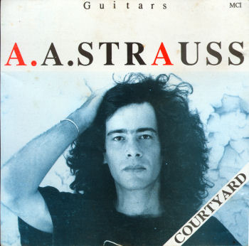 Courtyard by Avner Strauss CD cover